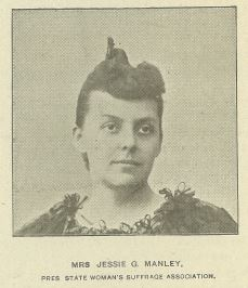 Photograph of Florence Jessie Grove (Mrs. Charles E.) Manley (1858–1940) of Fairmont, West Virginia, circa 1896; founding president of the West Virginia Equal Suffrage Association; image snipped from The Woman's Edition of Fairmont Index (September 1896)